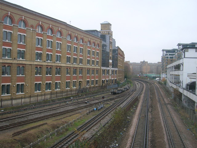 Whiteley's Furniture Depository from West Cromwell Road Bridge W8